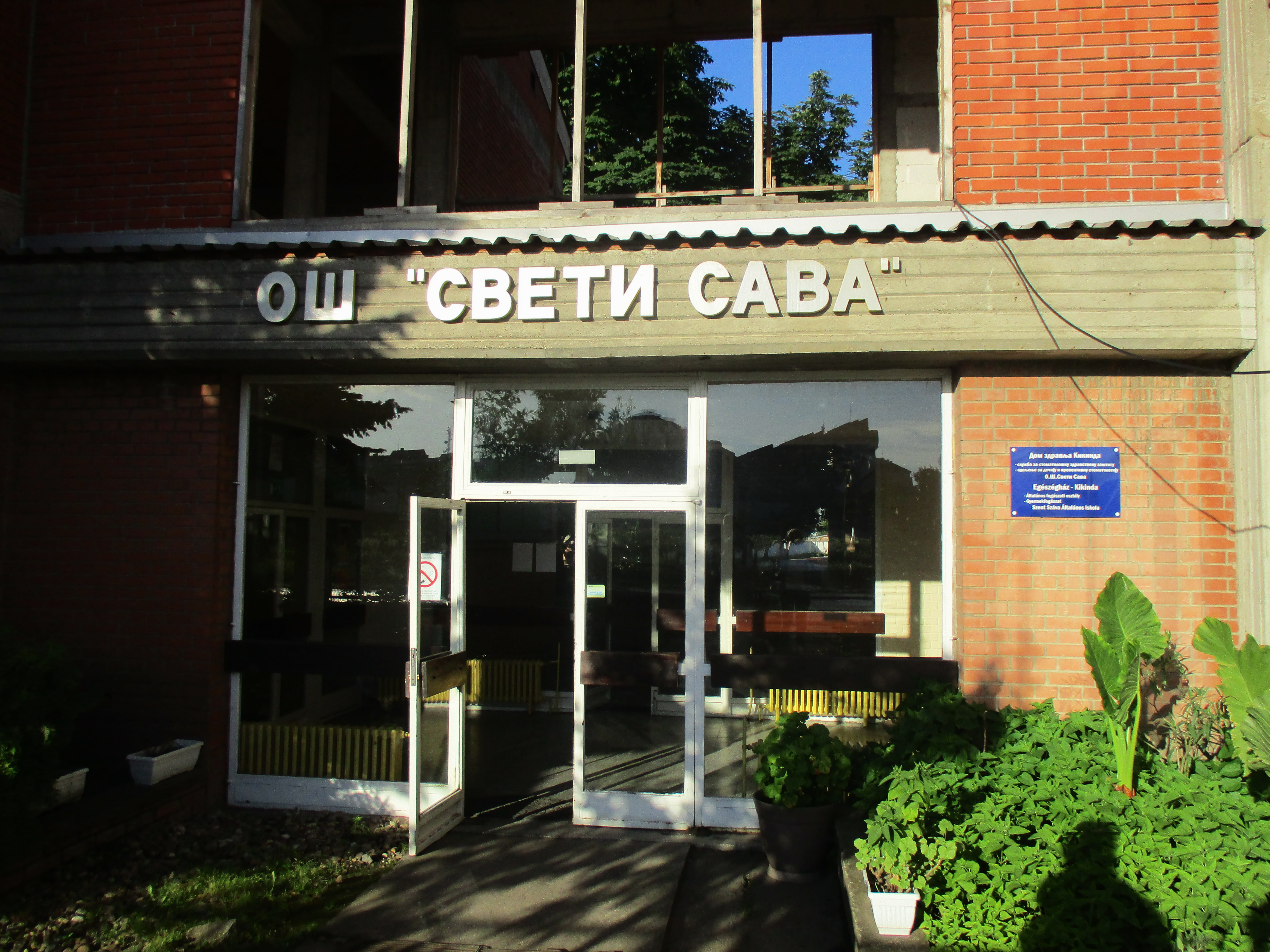 Primary school Sveti Sava in Kikinda.